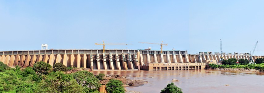 Sudan Roseires Dam